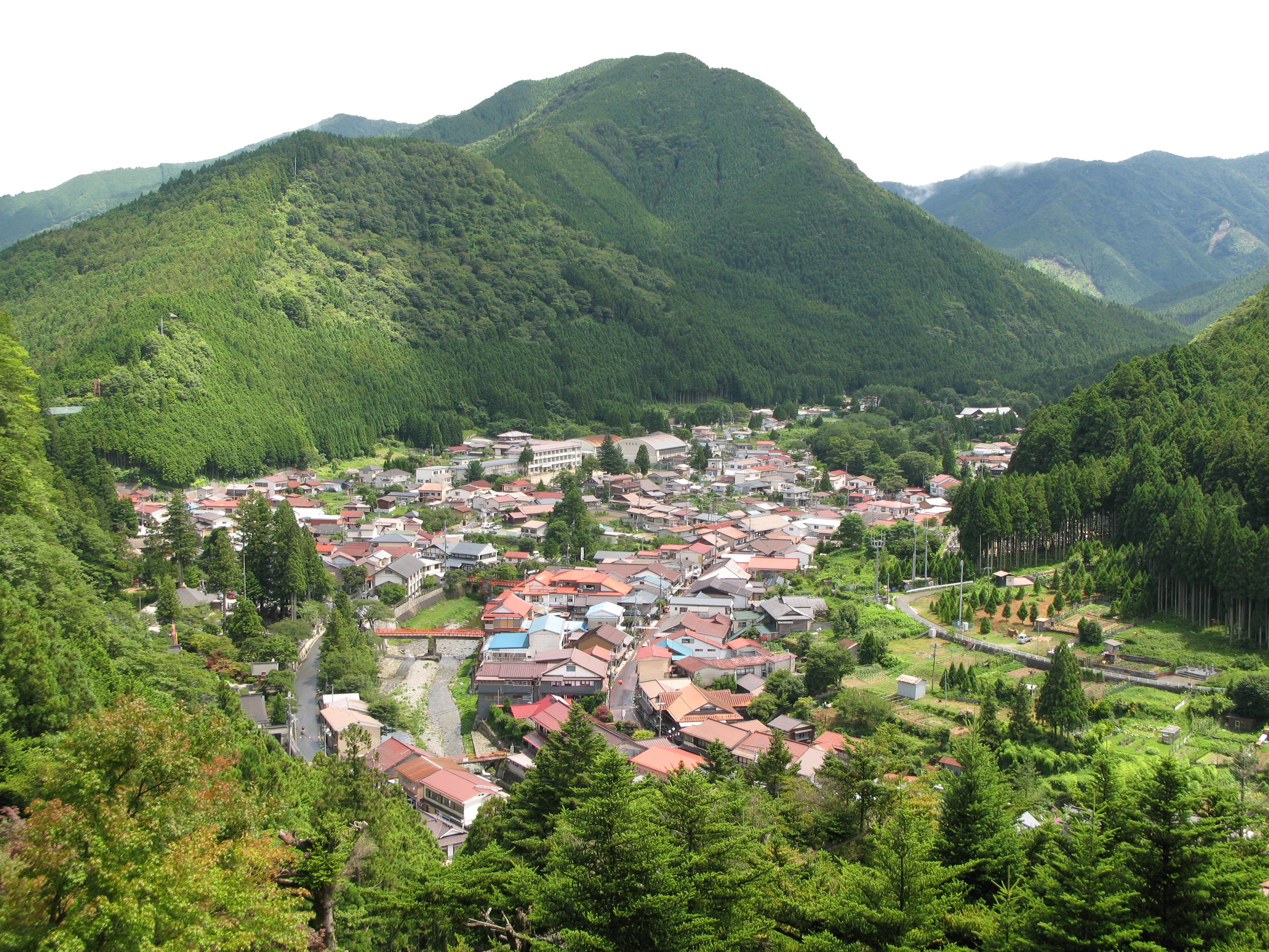 View of Dorogawa in Tenkawa, Nara Prefecture, Japan.